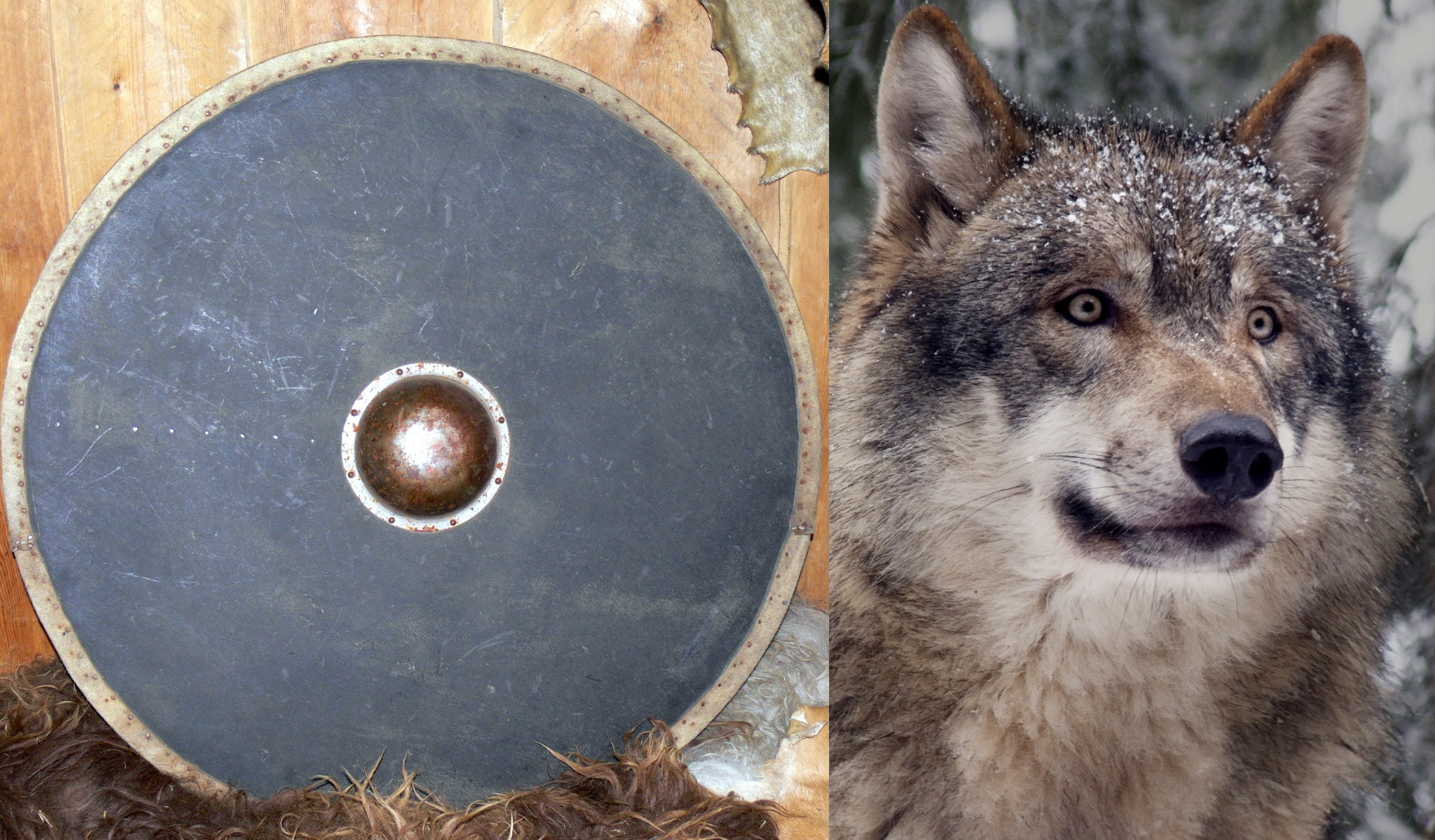 This image combines images of a shield and a wolf, for use in the article Randal and Randall (given names). These names are ultimately derived from a name composed of two elements meaning "shield", "rim" + "wolf".